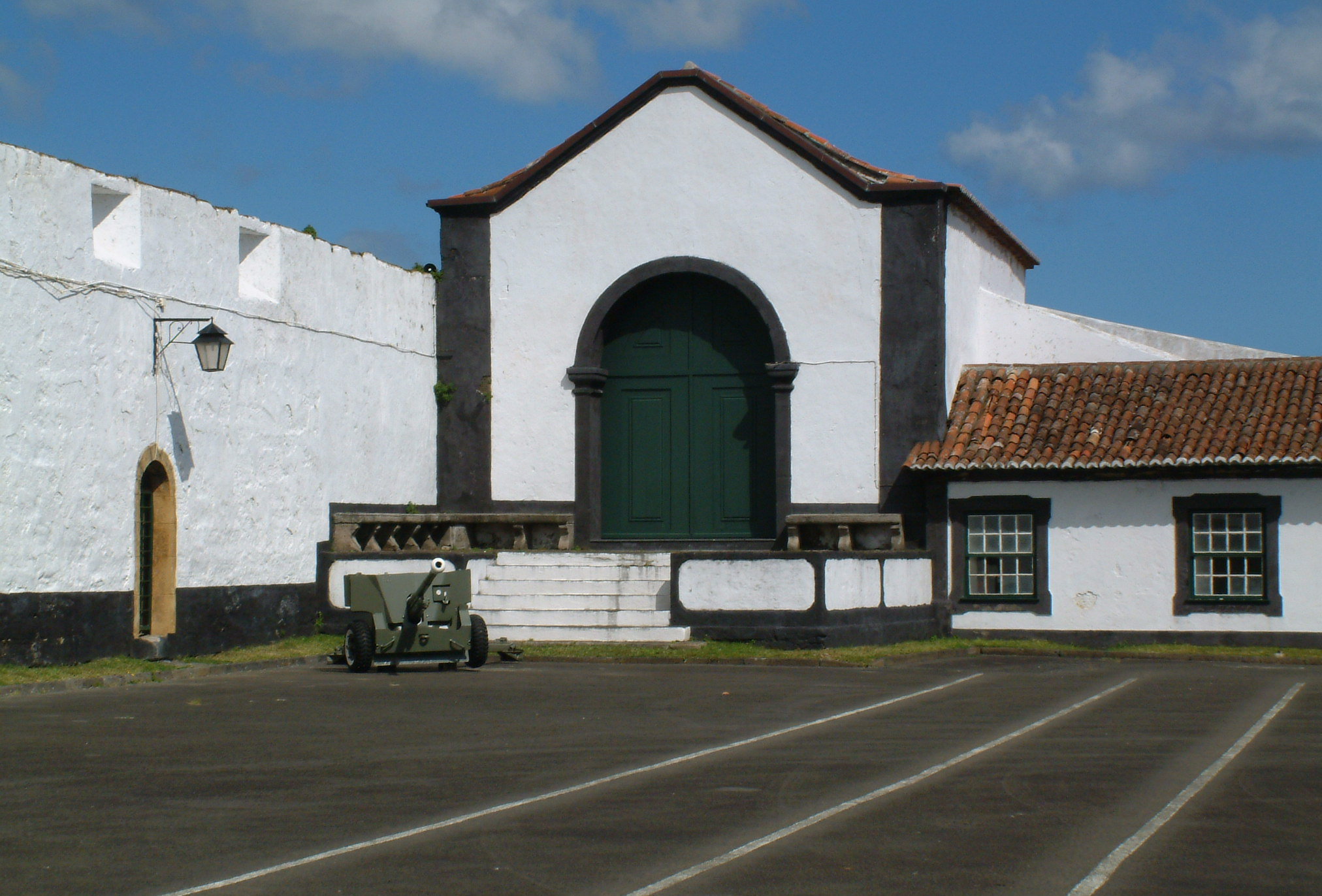 Small church at the fortress of São João Baptista in Monte Brasil (Angra do Heroísmo, Açores)